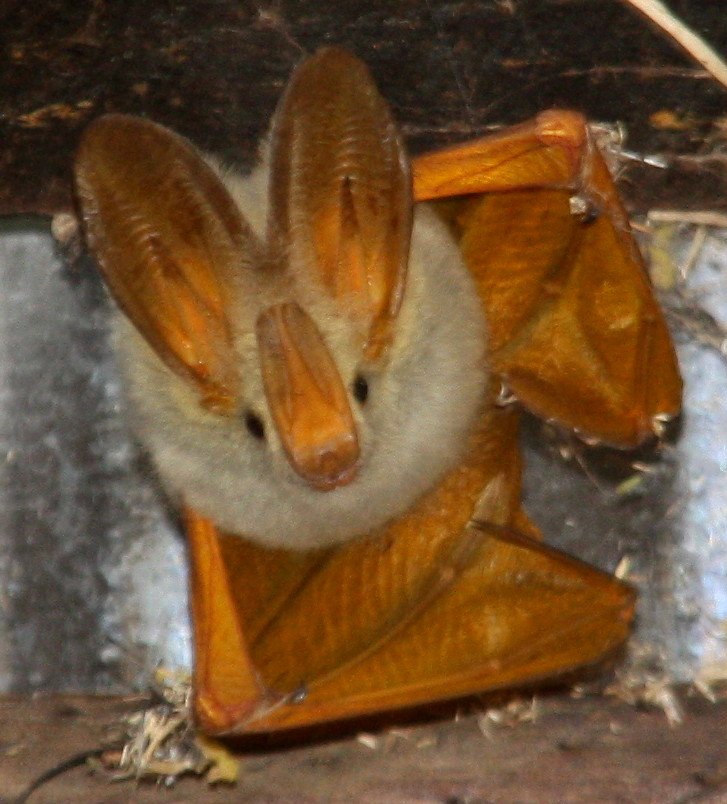 Picture taken of a yellow-winged bat (Lavia frons) in Tanzania. The bat was hanging inside a building.